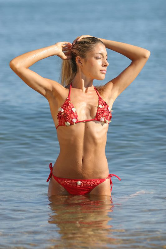 Girl in bikini